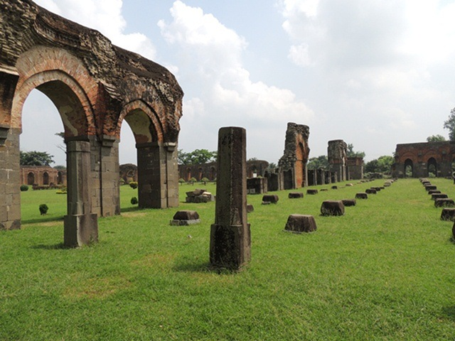 Adina Mosque